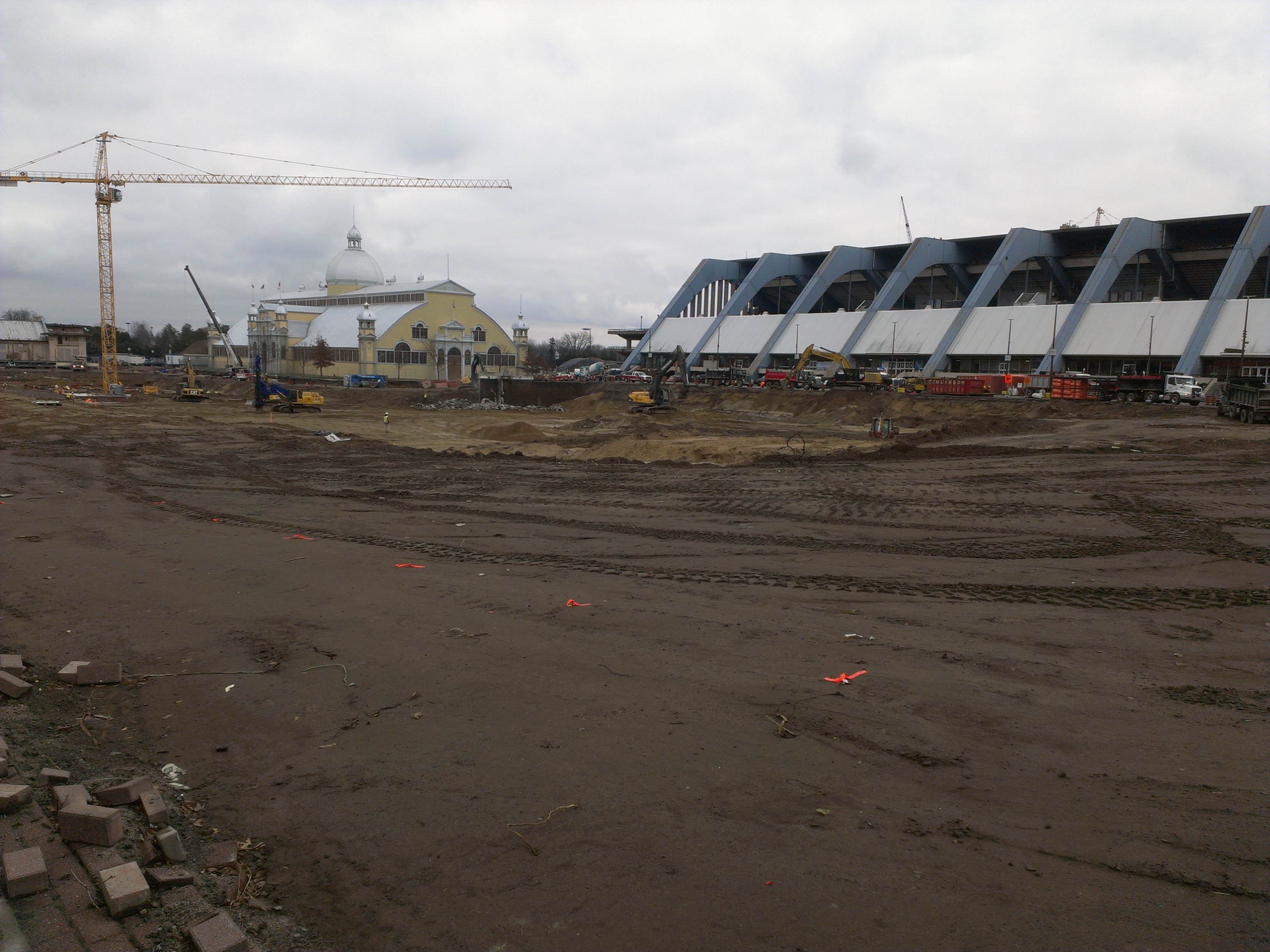 Lansdowne Park during renovations. Visible is the Aberdeen Pavilion to the left, and the north stands to the right. Photo take from the intersection of Bank St. and Holmwood Ave.